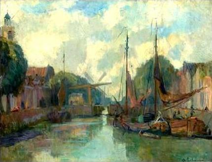 Canal in Rotterdam